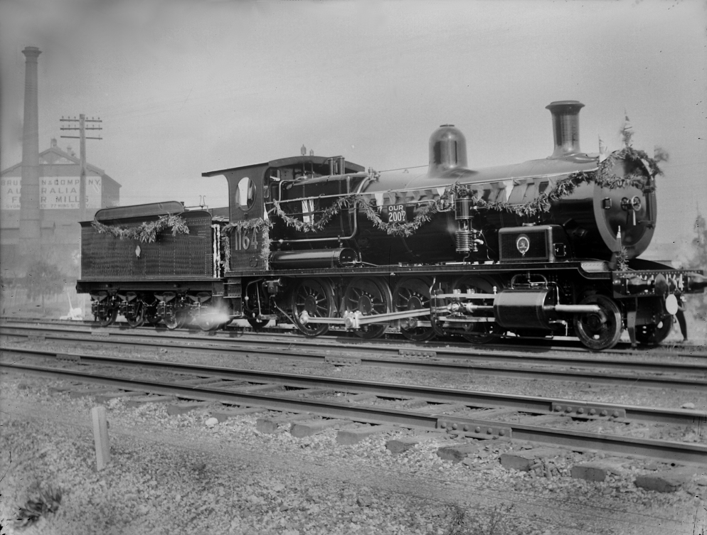 a collection of historical pictures in the Public Domain from the Powerhouse Museum.